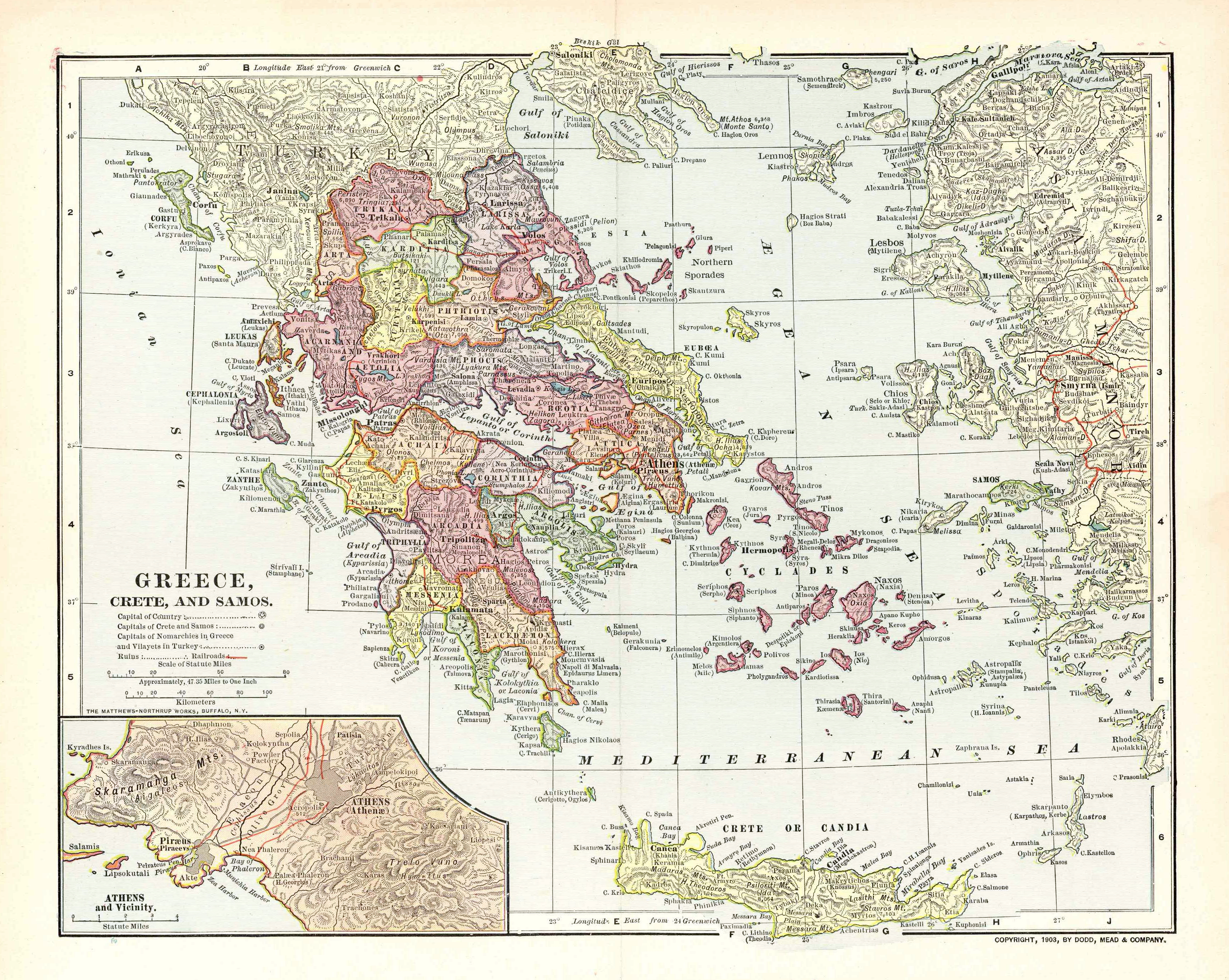 Map of the Kingdom of Greece, the Cretan State and the Principality of Samos in 1903. It displays the greek railway network as it was in 1900-1901.